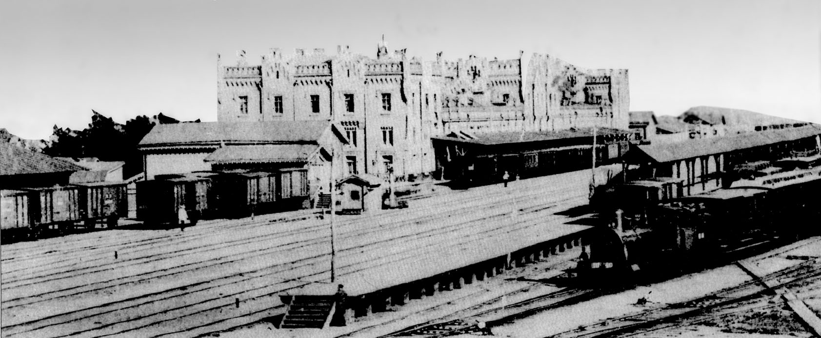 Railway station in Kyiv (now Ukraine). Beginning of 20th century.